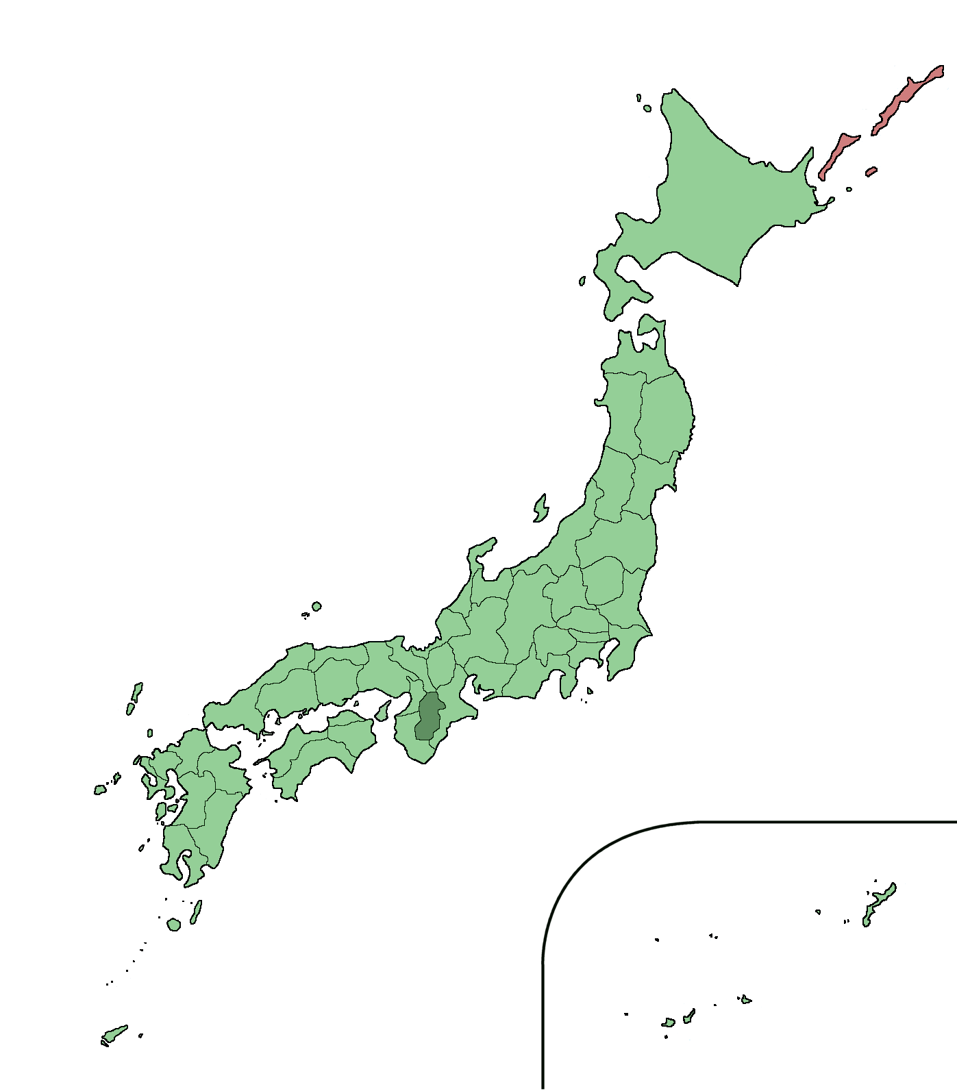 Large size map of Japan with Nara highlighted, self made but originally based on a japanese mapbook.